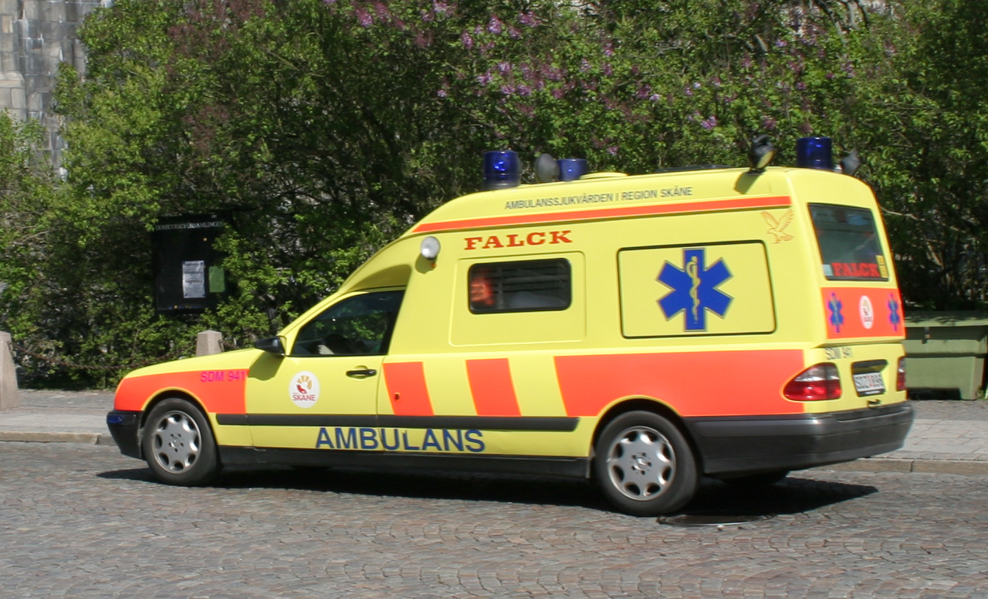 Swedish ambulance in Lund.